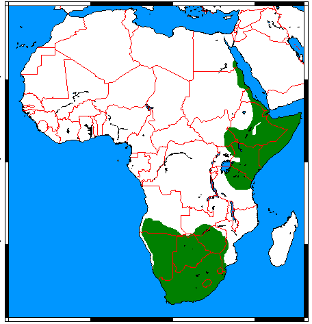 Range map for Aardwolf (Proteles cristatus), made by me with help of Map depending on the range map at IUCN red list.